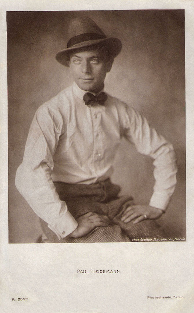 Portrait of Paul Heidemann, German postcard by Photochemie, Berlin, no. K. 2547. Photo: Atelier Mac Walten, Berlin